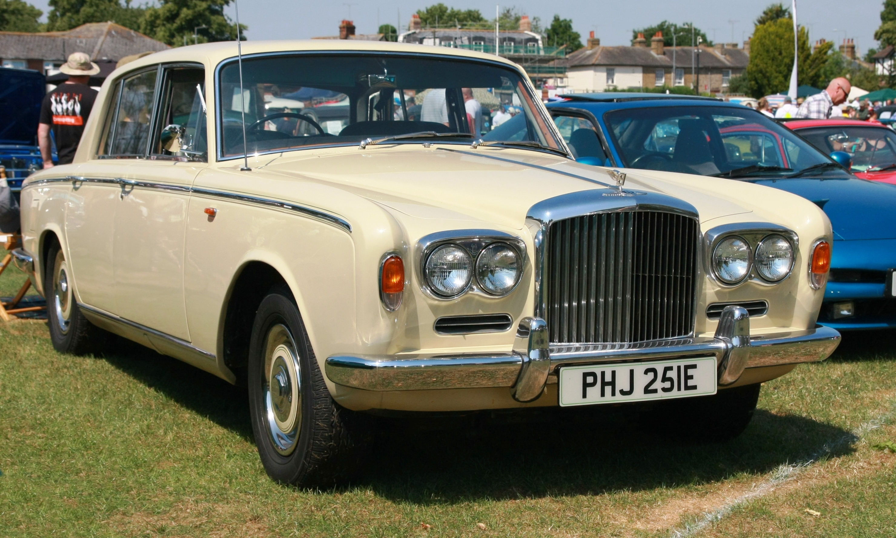 Bentley T (1967) in Essex (2018)